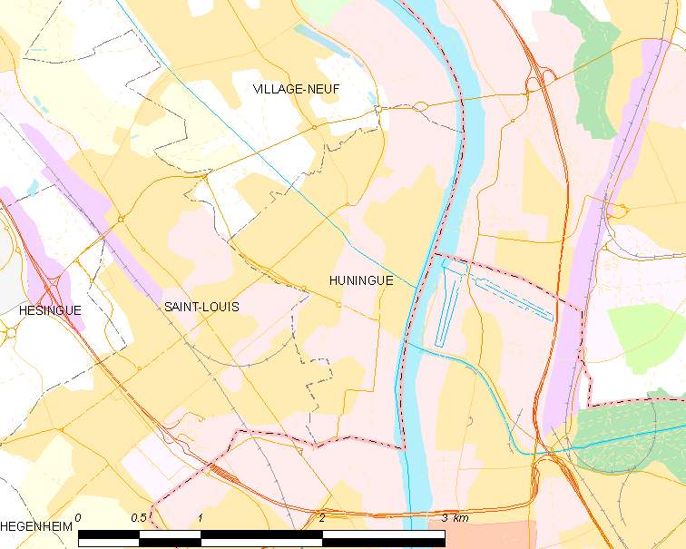 Map of French municipality